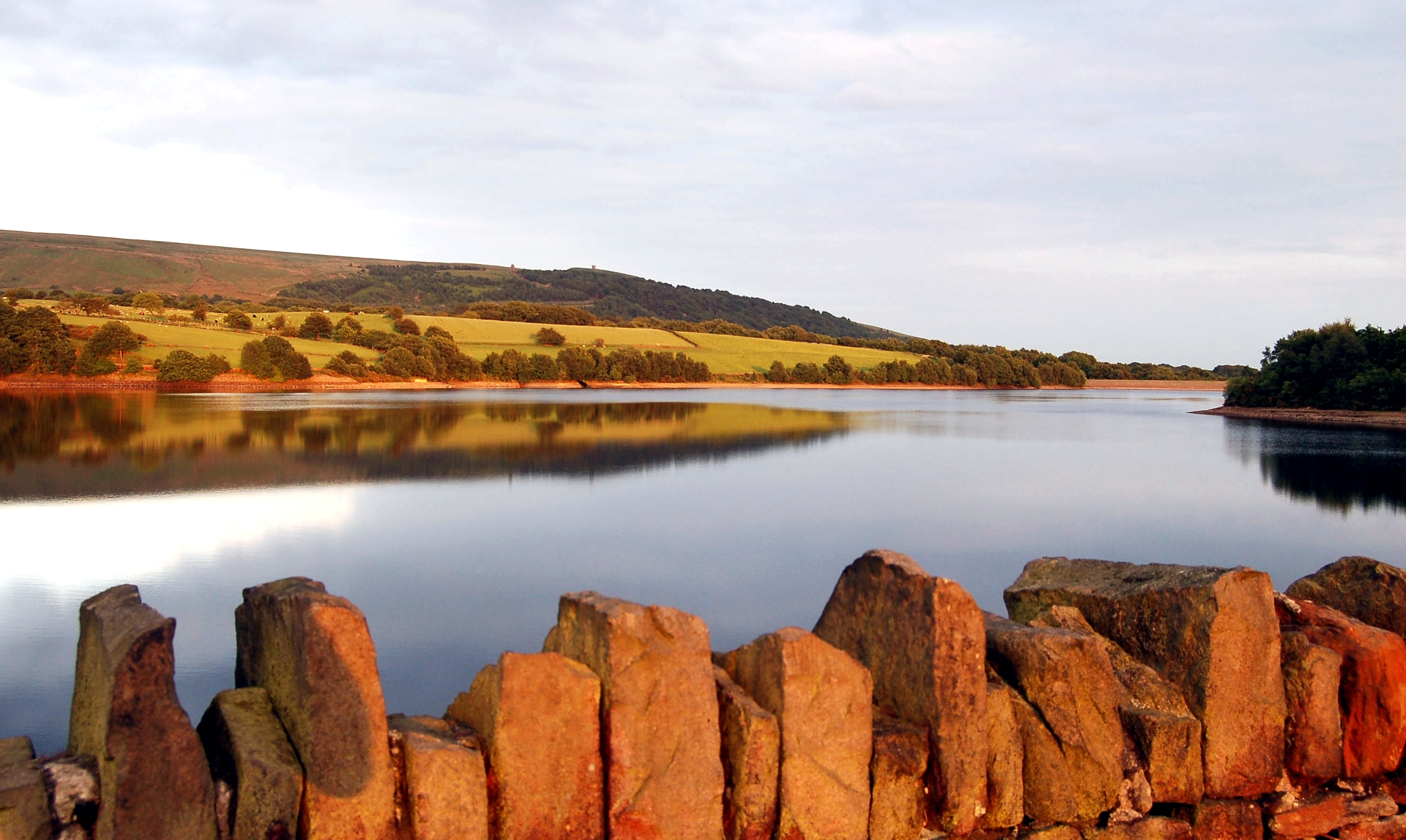 The Yarrow Reservoir near Rivington, Lancashire, England